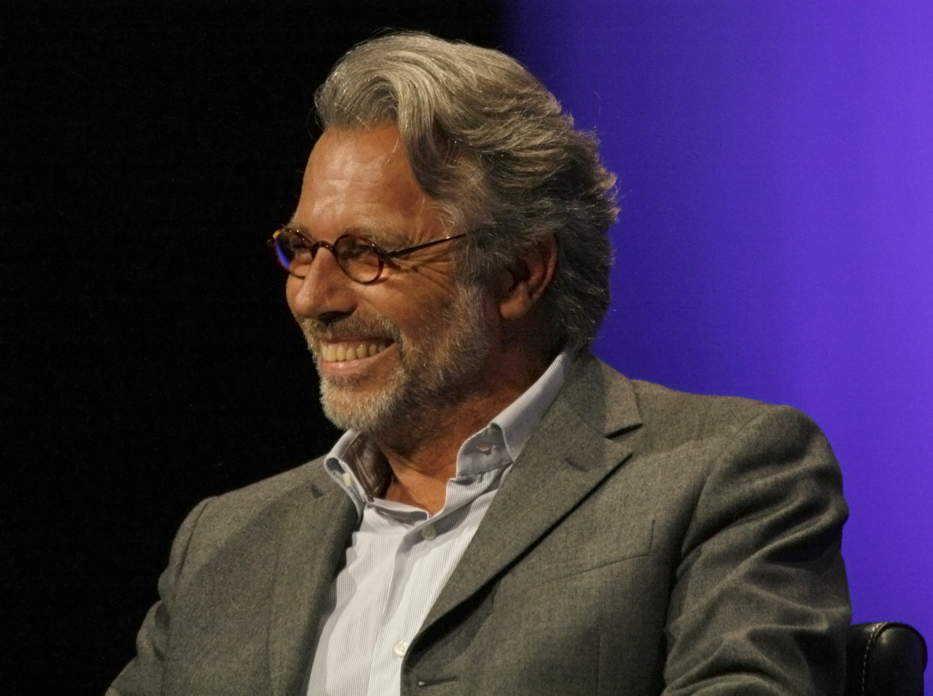 Austrian actor and singer Adi Hirschal at the kick-off event of the Social Democratic Party of Austria for the campaign for the legislative election 2008.